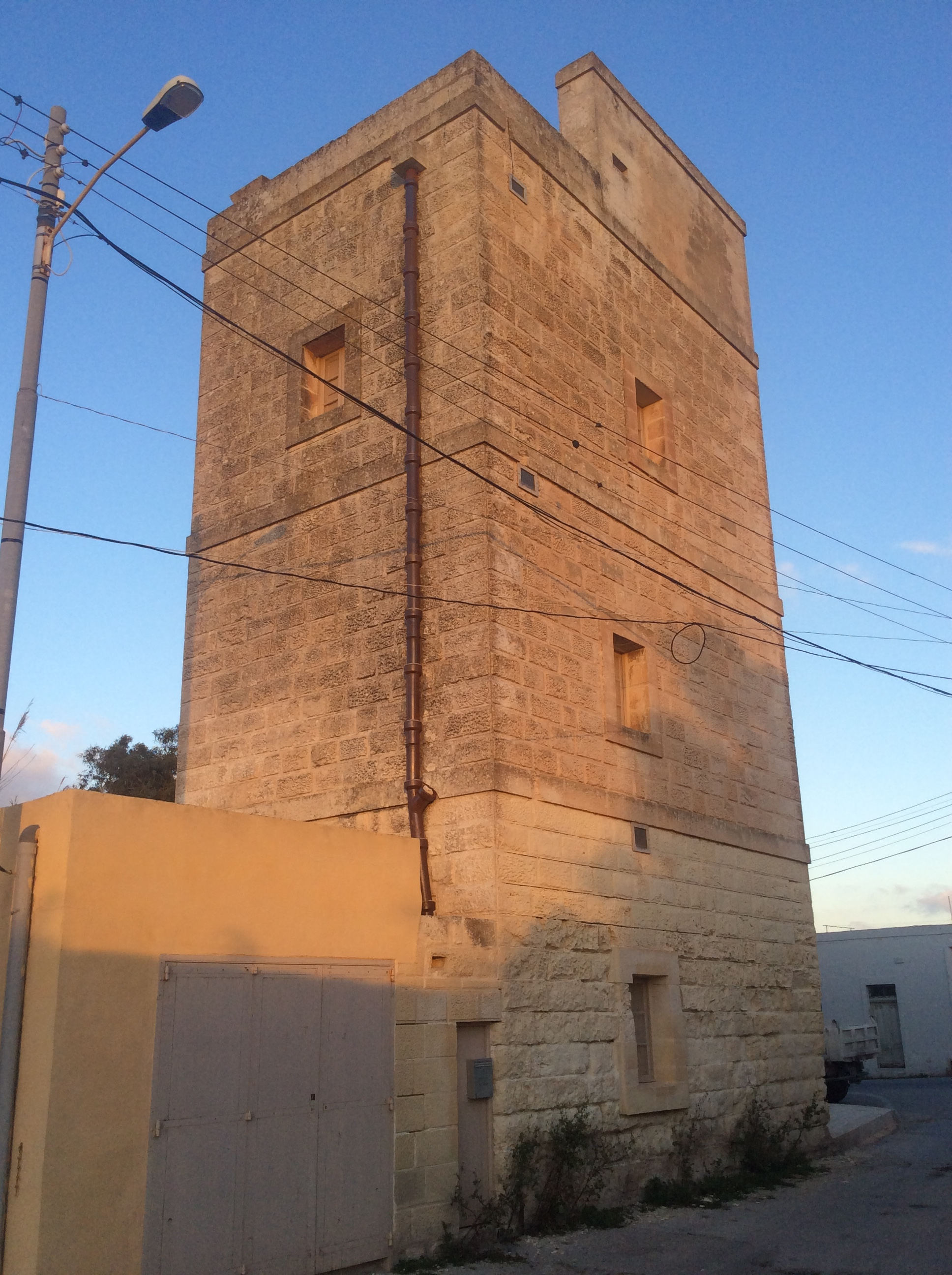 Semaphore Tower in Gharghur